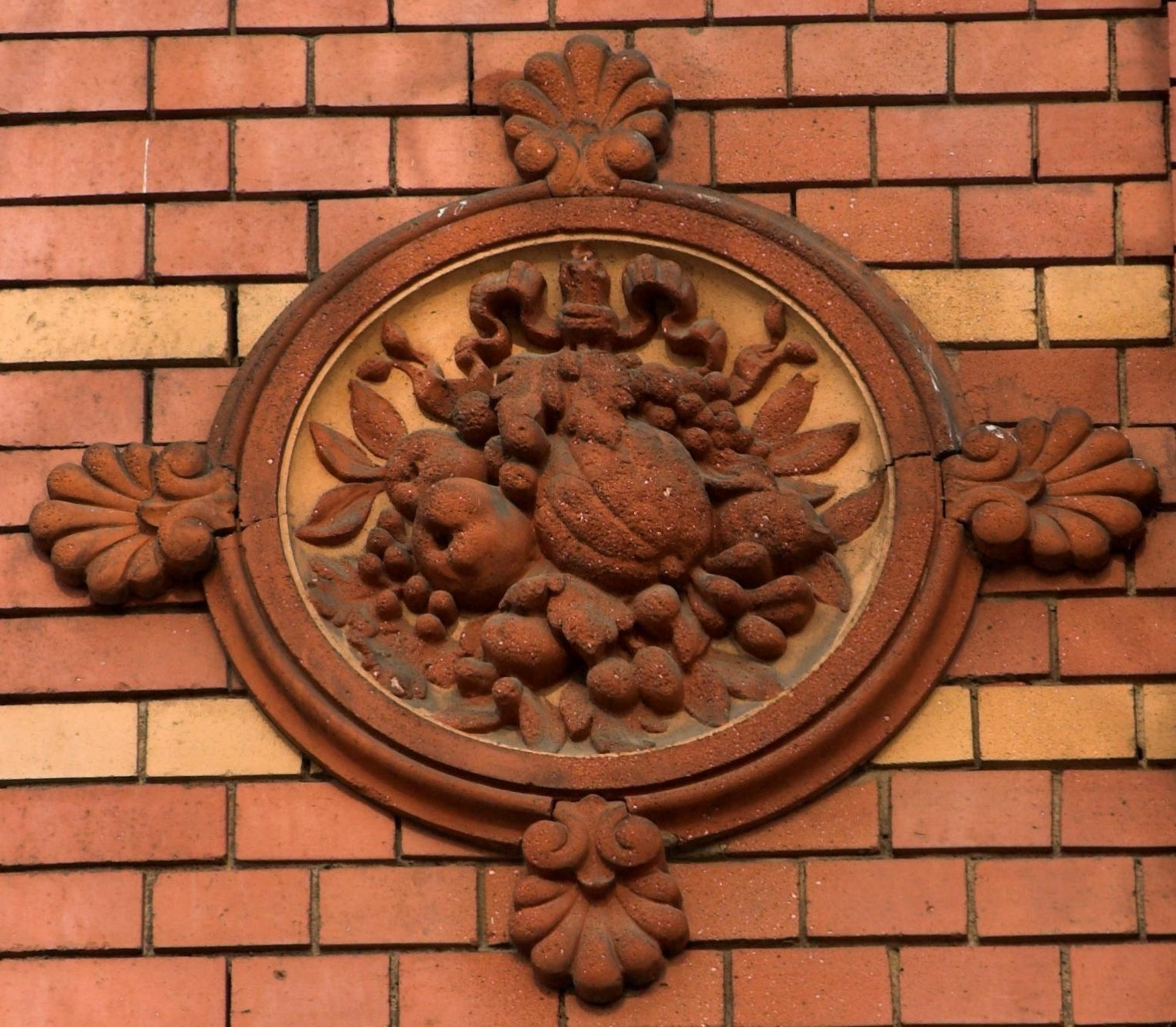 Berlin, market hall VII, terracotta medaillon "fruit"